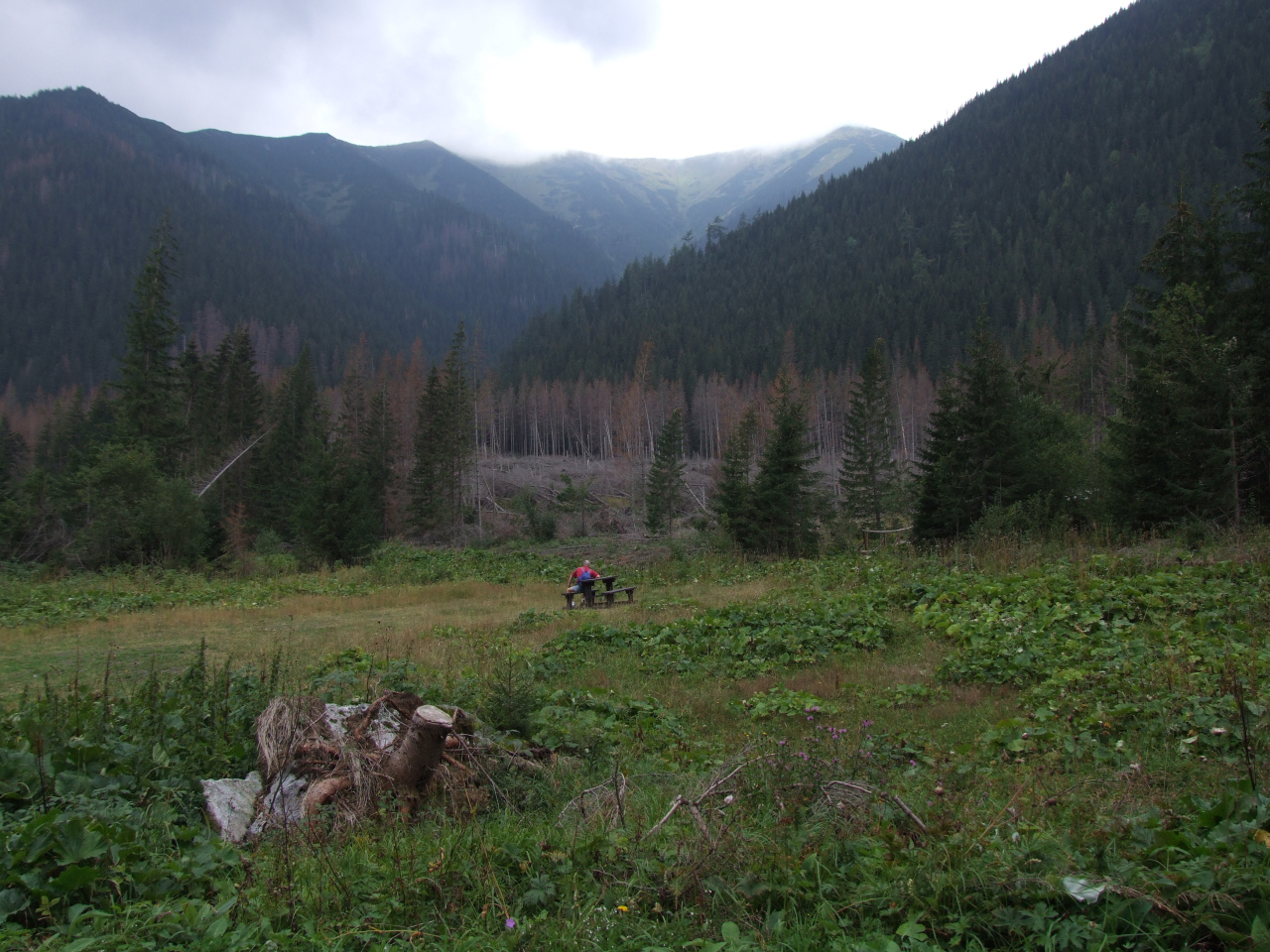 Cicha Dolina Liptowska (West Tatra Mountains)